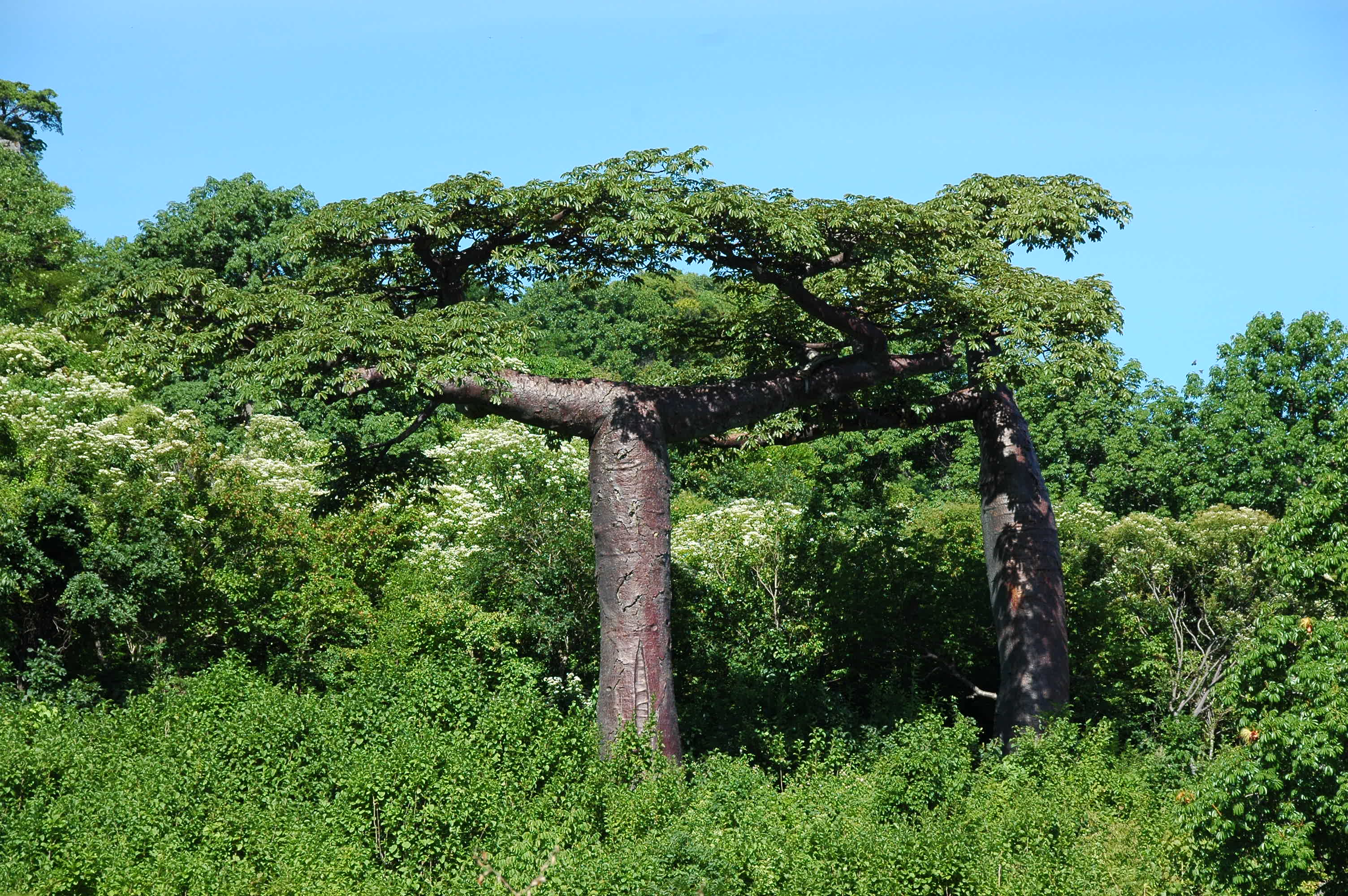 Adansonia suarezensis, a species of baobab restricted to northern Madagascar